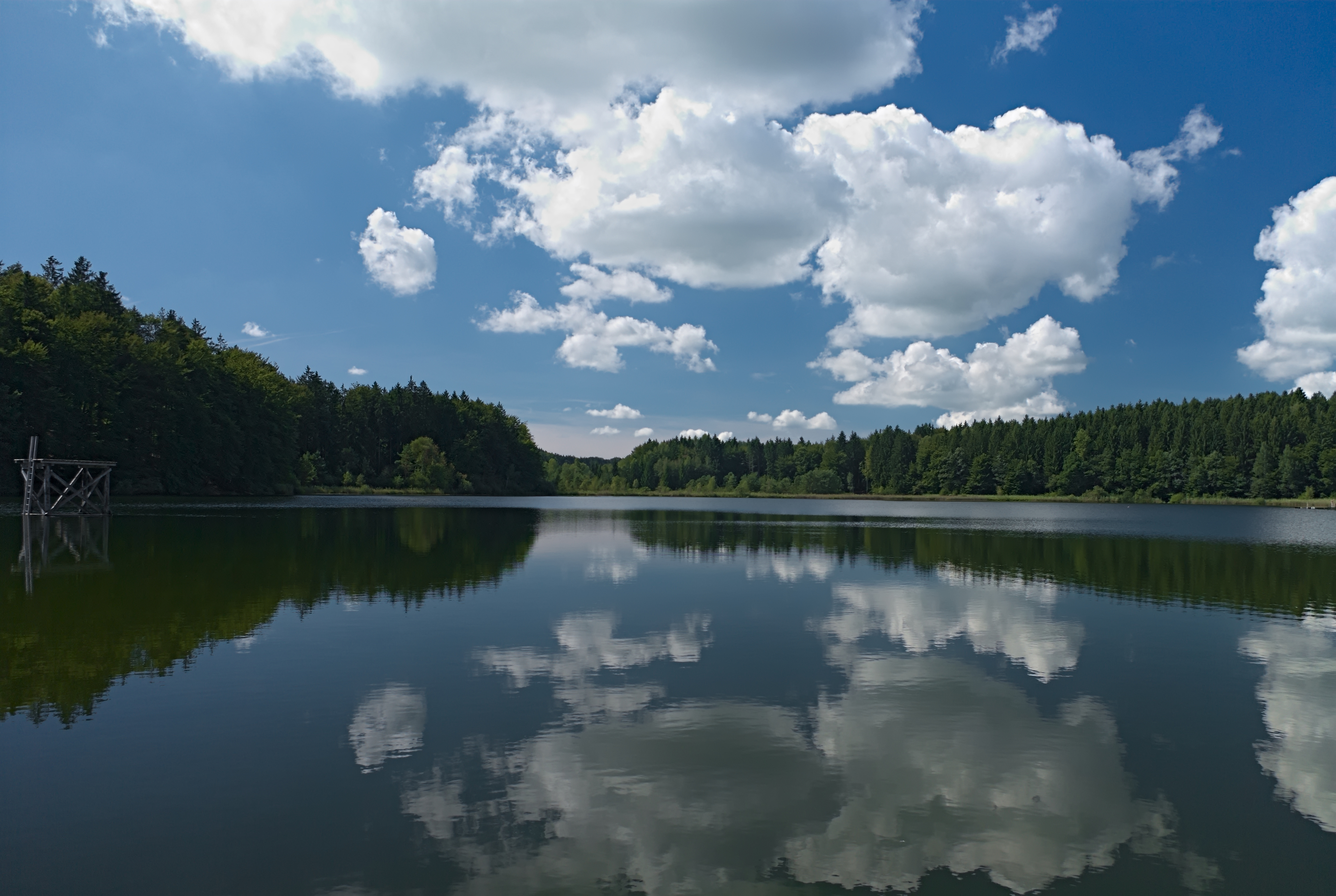 Lake Griessee is the second largest lake in the nature reserve Seeoner Seen (Bavaria, Germany). View from North-East to South-West.